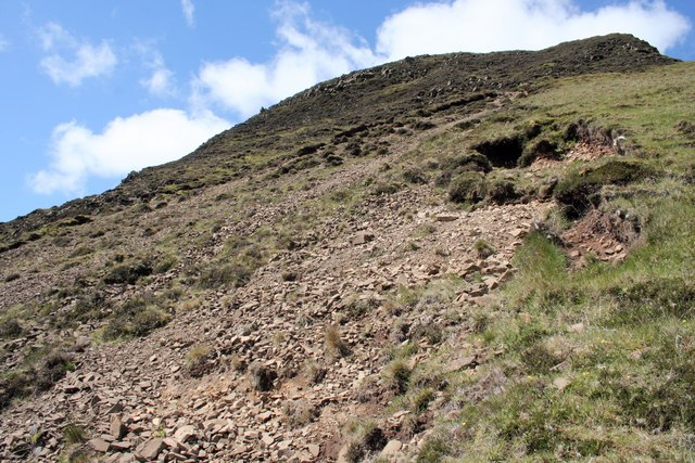 Tievebulliagh - On the slopes of Tievebulliagh, near Tully, Northern Ireland, there is an outcrop of a type of rock called porcellanite, which has been baked by the heat of the dolerite plug forming the summit of the mountain. Porcellanite is extremely hard and fine-grained, and it was used in Neolithic times to make stone axes, which have been found all over Ireland and further afield. Fragments of porcellanite can be seen among the dolerite in the scree.